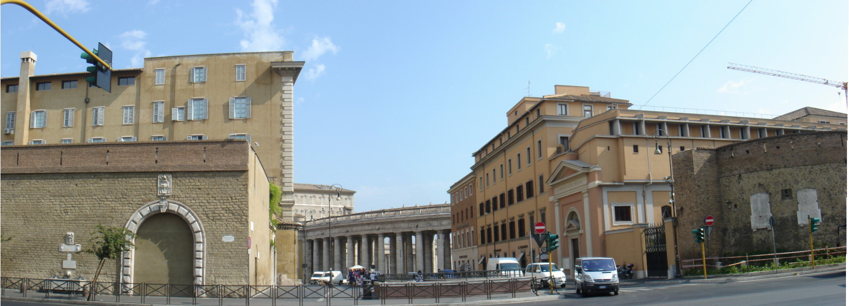 On the left: Cavalleggeri gate, which is actually a reconstruction since the original gate was pulled down in 1904 to make place for the street in the center. The fountain on the left was originally on the right side of the original gate. On the right: The remnants of a defensive tower, called Turrionis.